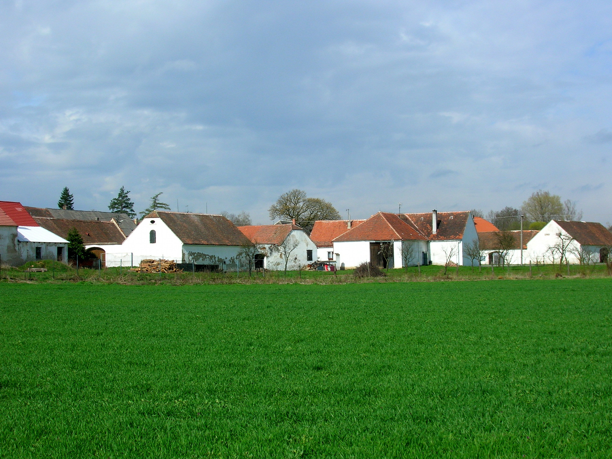 Jaroměřice nad Rokytnou. Popovice“